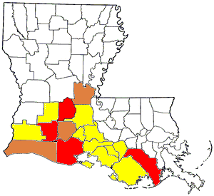 Distribution of Cajun French in Louisiana. White = 2.0%.